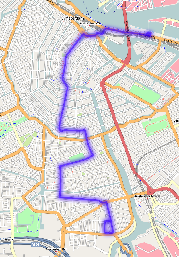 Route map of line 25 of the Amsterdam tram network. The background map is taken from , the tram route was drawn on this by me using my knowledge of the route.